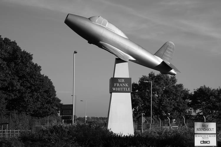 Memorial to Sir Frank Whittle on the northern boundary of Farnborough Aerodrome and showing a full-scale model of the Gloster E28/39 Author:Antony McCallum Licensing Attribution